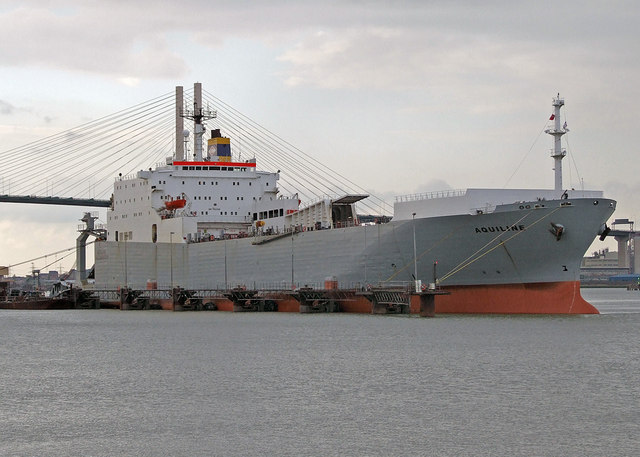 Freight ferry Aquiline at Dartford Cobelfret RO/RO freight ferry 'Aquiline' berthed at the Dartford International Freight Terminal just east of the Queen Elizabeth II bridge (seen behind).